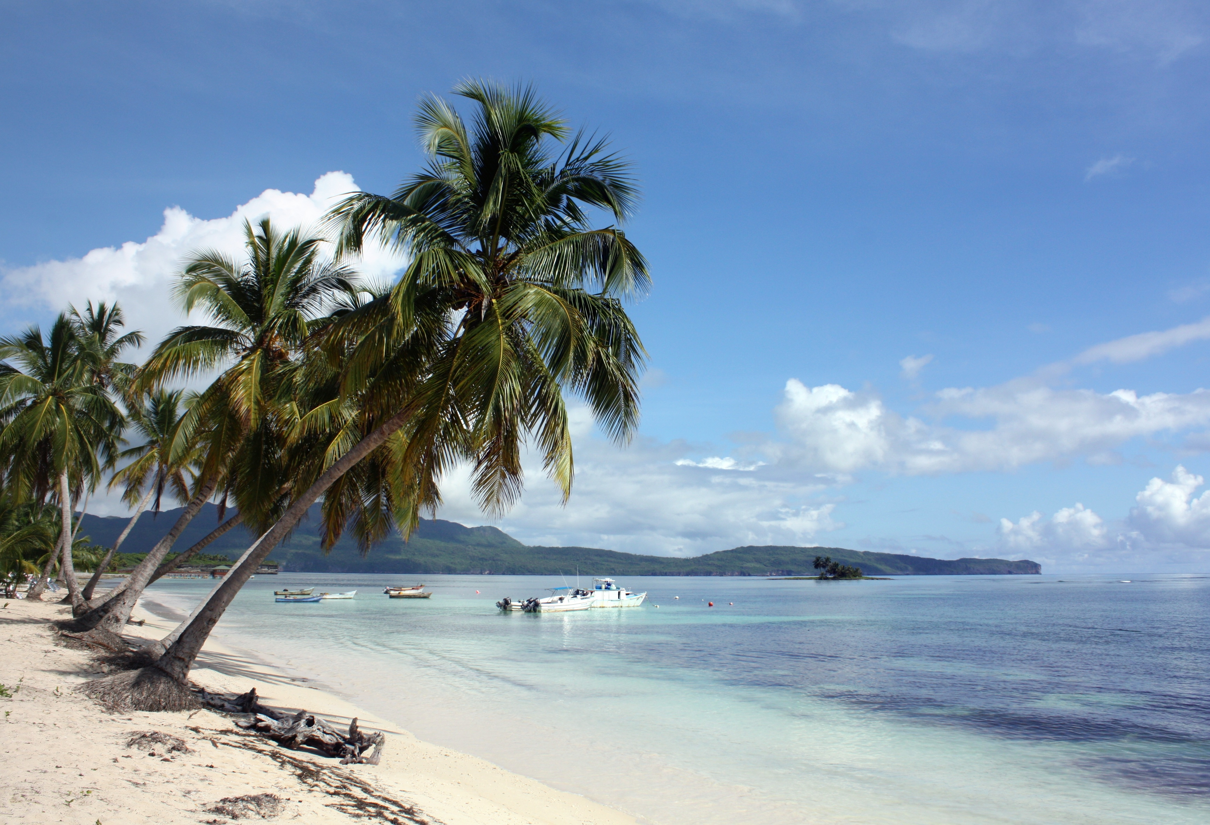 Las Galeras Samana Dominican Republic Caribbean